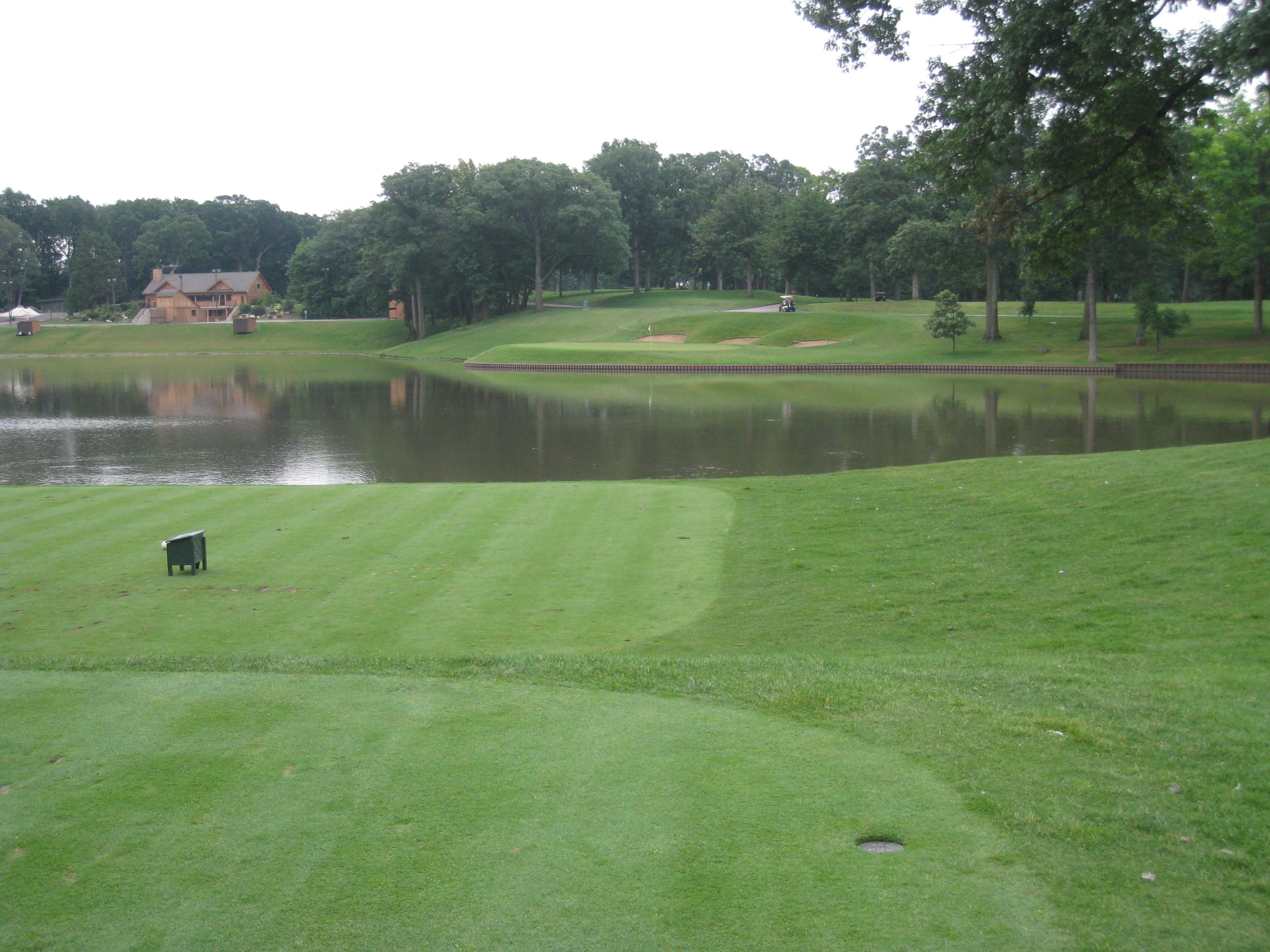 2 tee shot. My review of Medinah Country Club , including a tour of the clubhouse.